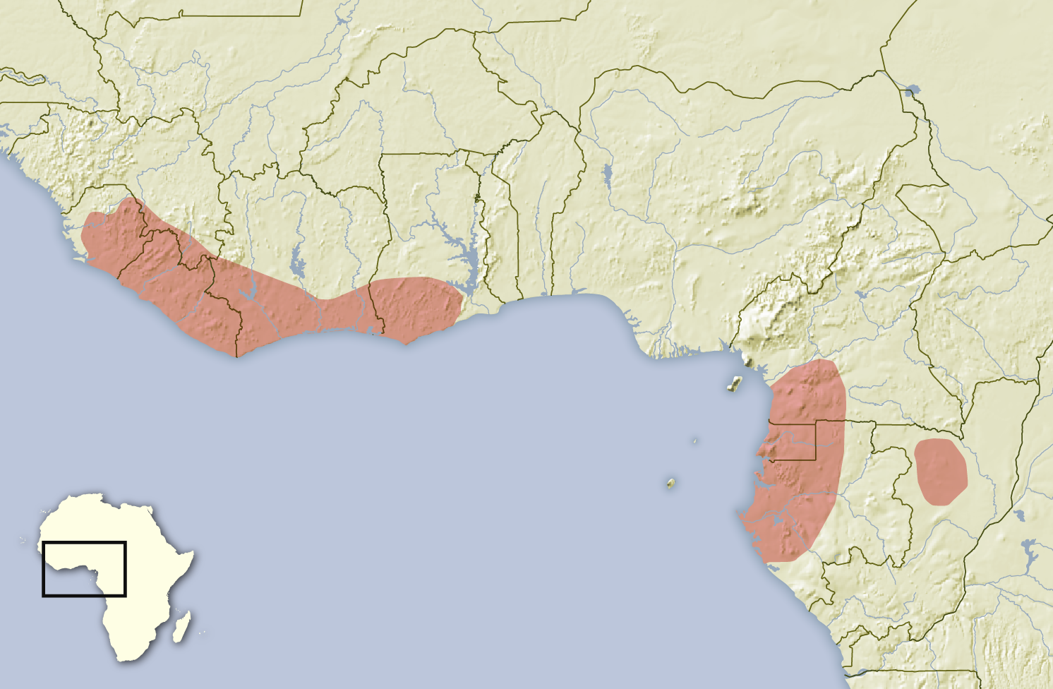 Distribution map of Epixerus ebii